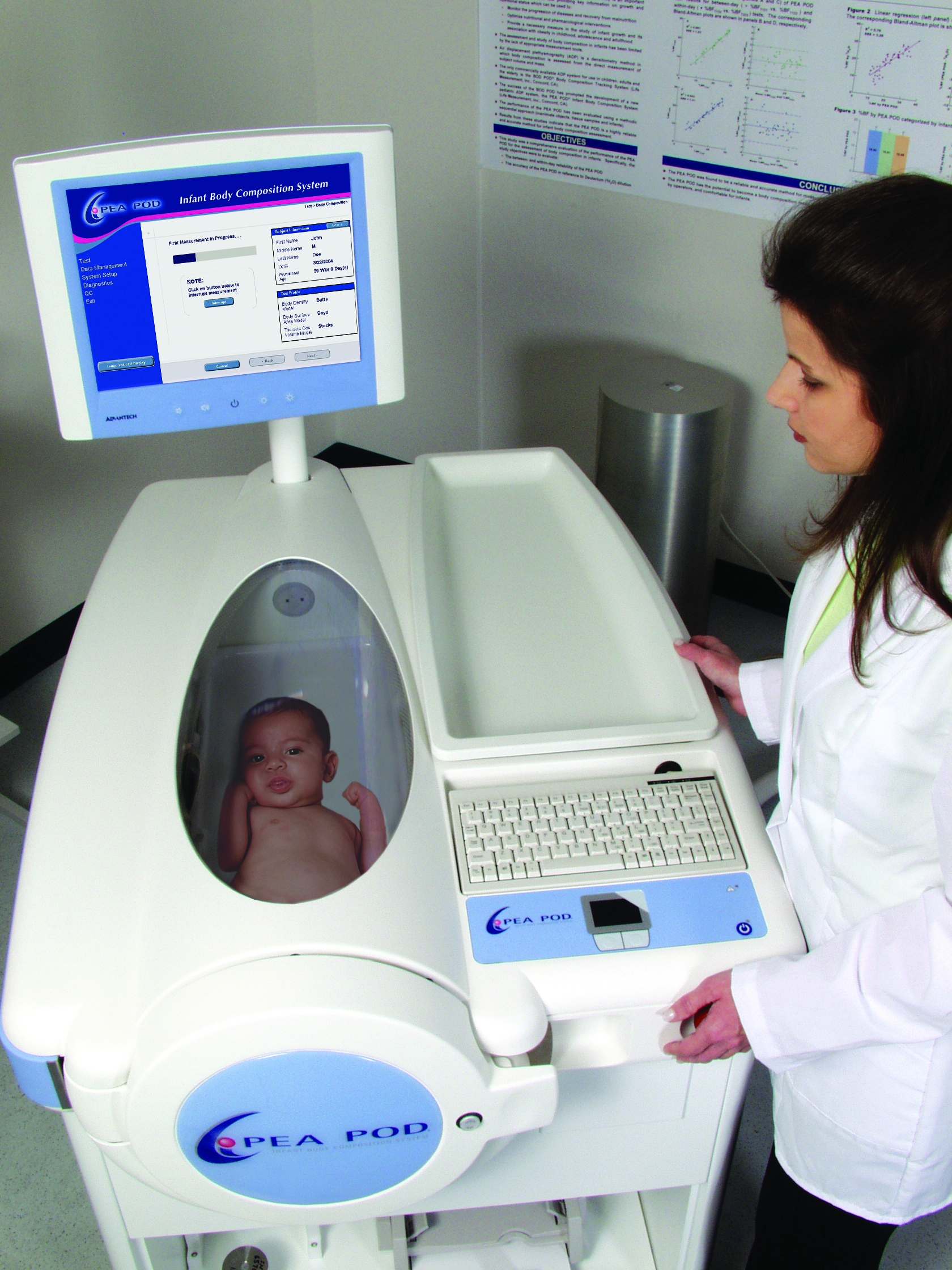 Body composition measurement in infants with air displacement plethysmography technique by COSMED (